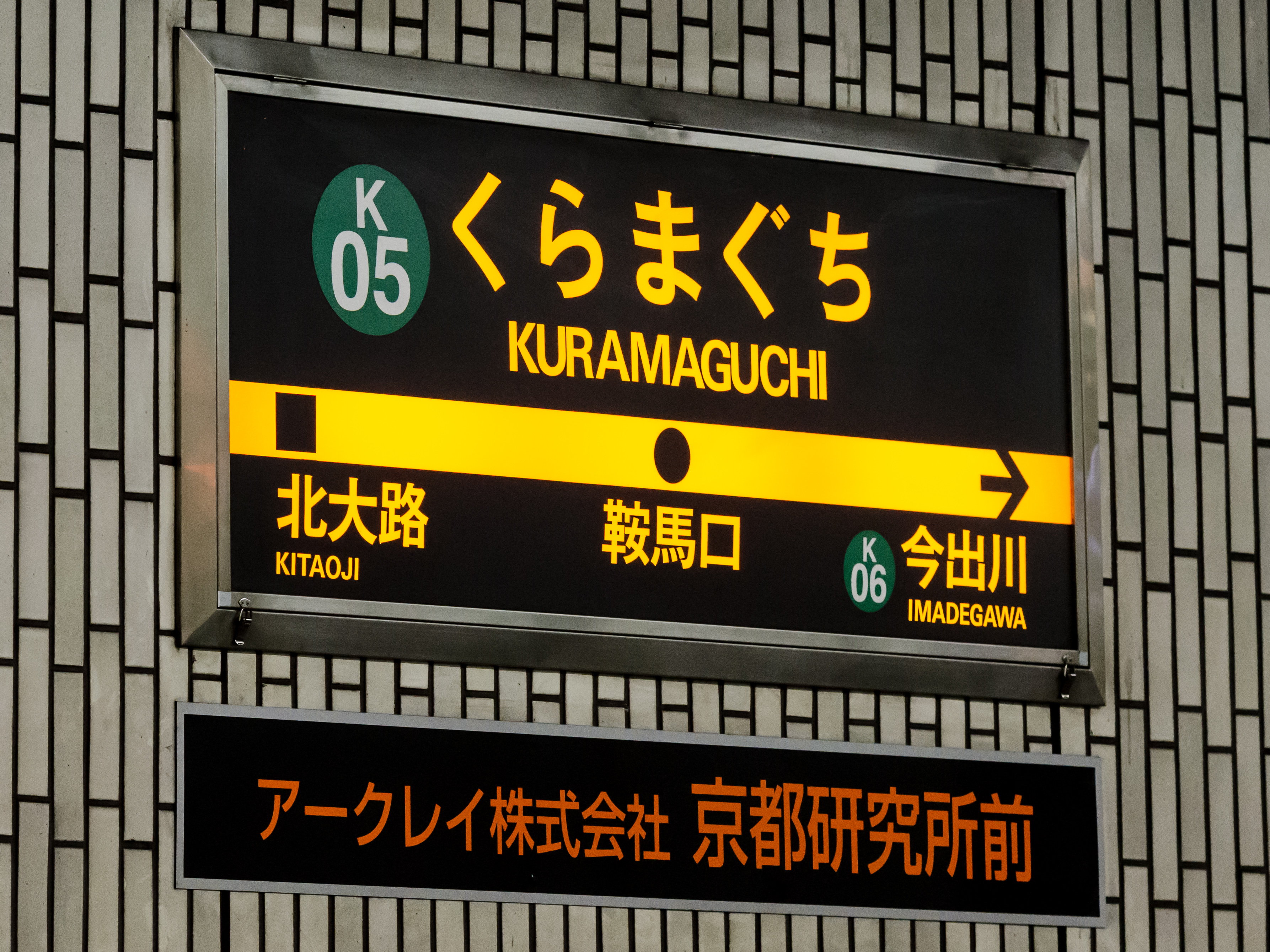 One of the illuminated Station signs at the Kuramaguchi station of Kyoto Subway